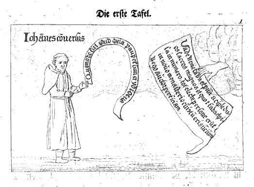 Reproduction of the first panel in a cycle of 15 (now lost) paintings from 1499, describing the history of the German convent of Medingen, published in a book by Johann Ludolph Lyssmann